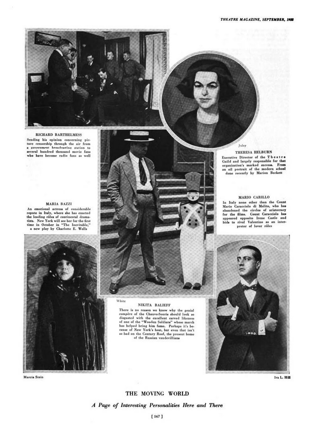 Portrait of Theresa Helburn